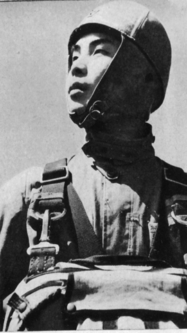 Imperial Japanese Army paratrooper with paratrooper helmet.